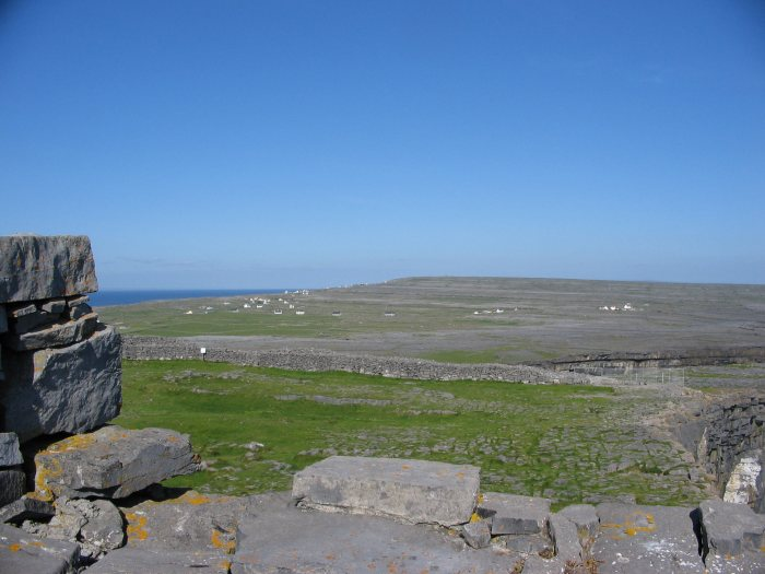 A View over the karst landscape from Dun Aonghasa, Inis Mór, Aran Islands.